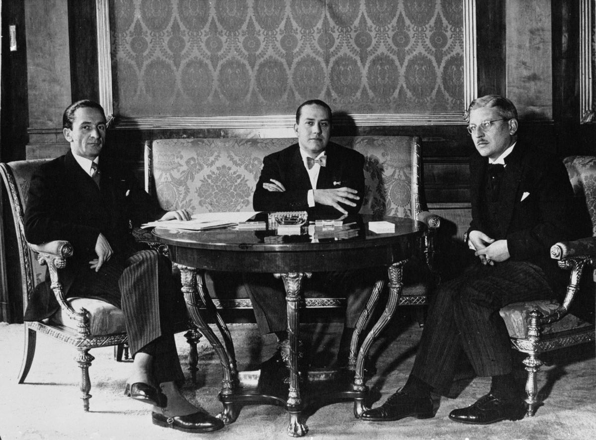 Left to right: Austrian Foreign Minister Guido Schmidt, Italian Foreign Minister Galeazzo Ciano, Austrian Chancellor Kurt Schuschnigg at the opening of the Austro-Italian Conference in 1936.